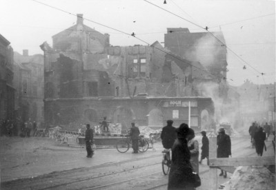 The HQ of newspaper Fyns Tidende in Odense following a schalburgtage attack on 26 May, 1944. Odense City Archive.